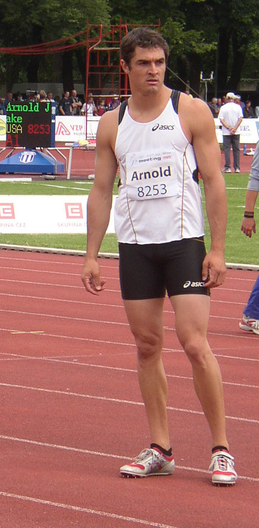 Athlete Jake Arnold of the United States prepares for his attempt in long jump during men's decathlon at 4th edition of the TNT - Fortuna Meeting (IAAF World Combined Events Challenge Meeting, Sletiště Stadium, Kladno, Czech Republic, 15 June 2010, 13:16).